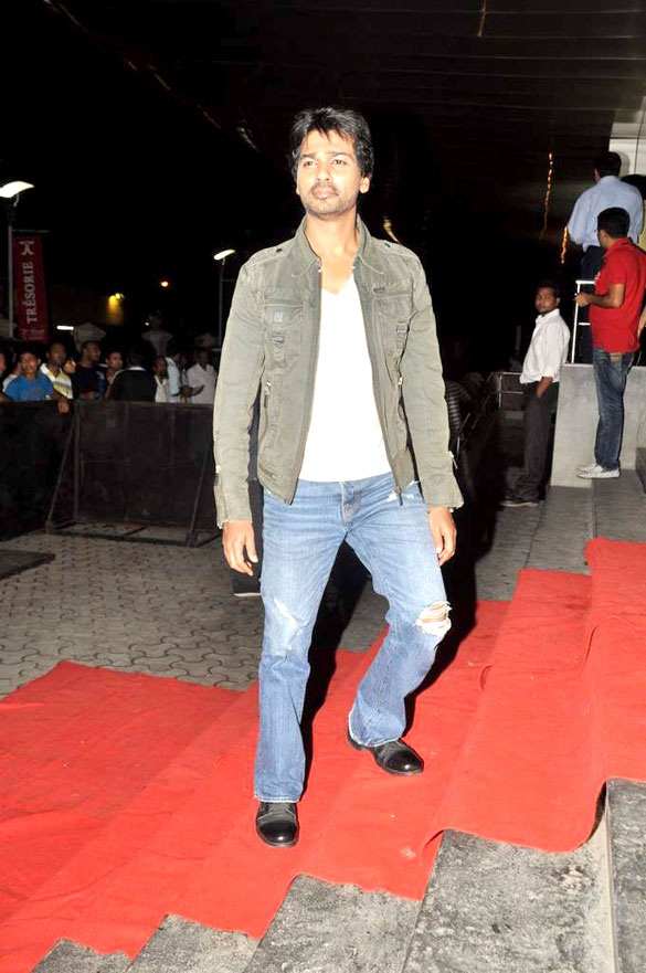 Nikhil Dwivedi at the special screening of 'Bol Bachchan'